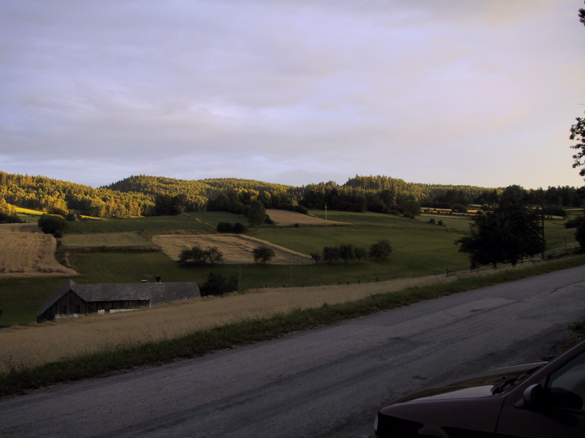 View on Burgleiten (from Riebeis).